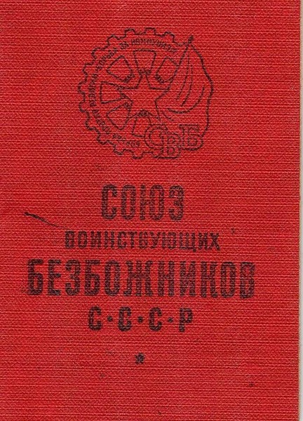 The cover of the membership card of the Union of Militant Atheists (Soyuz Voinstvuyushchikh Bezbozhnikov)